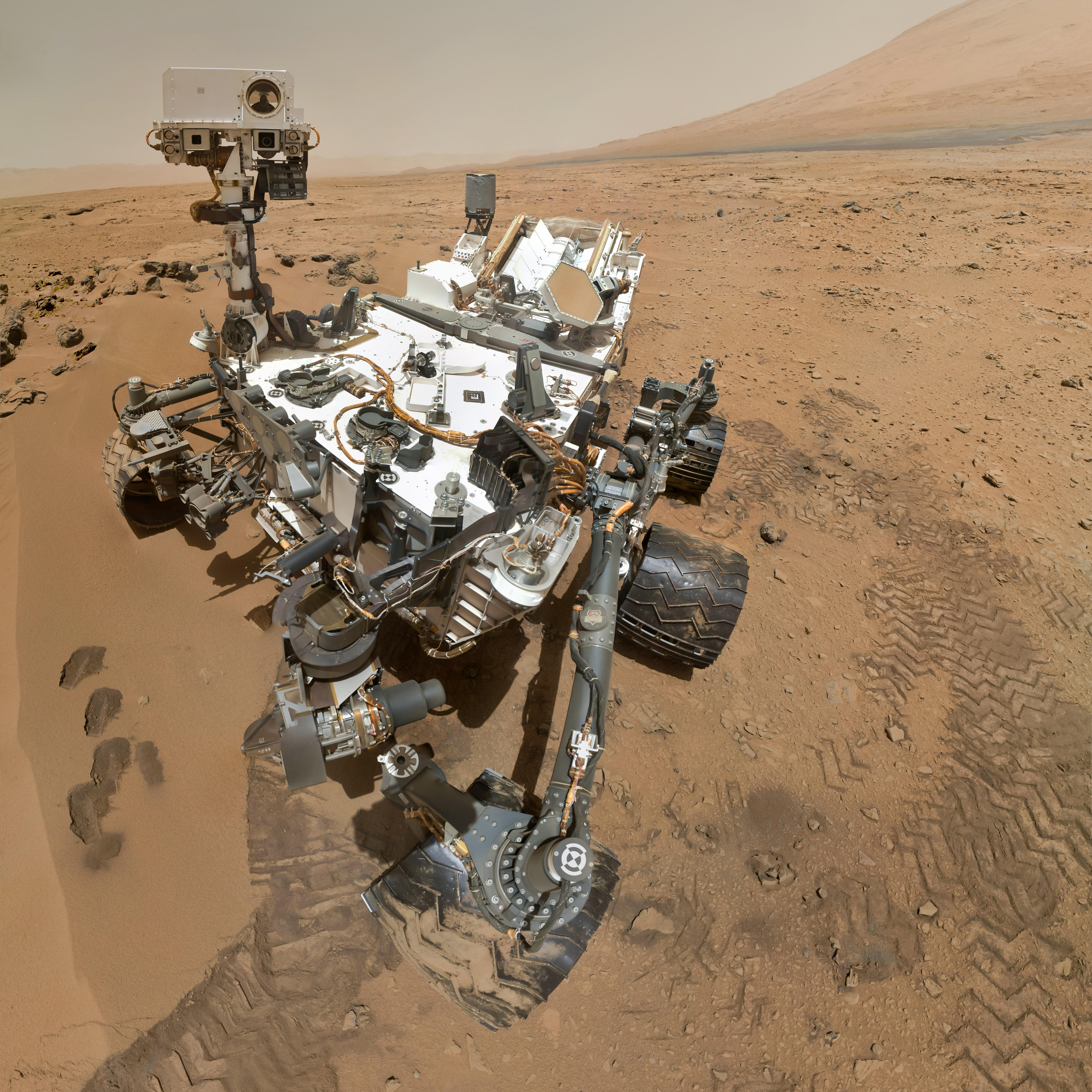 Square crop of original image, rendered from Tiff-file. On Sol 84 (Oct. 31, 2012), NASA's Curiosity rover used the Mars Hand Lens Imager (MAHLI) to capture this set of 55 high-resolution images, which were stitched together to create this full-color self-portrait. The mosaic shows the rover at "Rocknest," the spot in Gale Crater where the mission's first scoop sampling took place. Four scoop scars can be seen in the regolith in front of the rover. The base of Gale Crater's 3-mile-high (5-kilometer) sedimentary mountain, Mount Sharp, rises on the right side of the frame. Mountains in the background to the left are the northern wall of Gale Crater. The Martian landscape appears inverted within the round, reflective ChemCam instrument at the top of the rover's mast. Self-portraits like this one document the state of the rover and allow mission engineers to track changes over time, such as dust accumulation and wheel wear. Due to its location on the end of the robotic arm, only MAHLI (among the rover's 17 cameras) is able to image some parts of the craft, including the port-side wheels. This high-resolution mosaic is a more detailed version of the low-resolution version created with thumbnail images, at PIA16238. JPL manages the Mars Science Laboratory/Curiosity for NASA's Science Mission Directorate in Washington. The rover was designed, developed and assembled at JPL, a division of the California Institute of Technology in Pasadena.